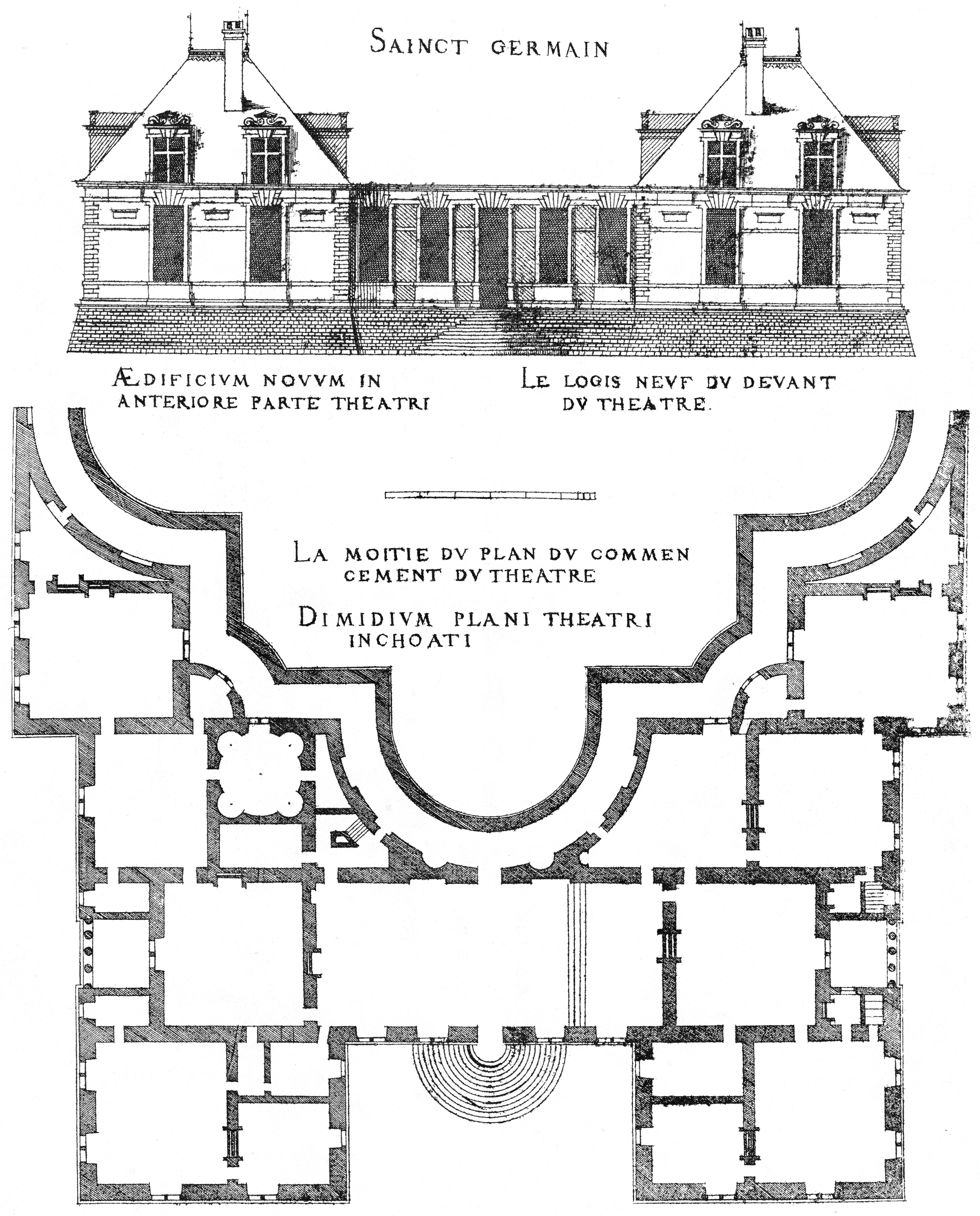 Engraving from Le premier volume des plus excellents Bastiments de France by Jacques I Androuet du Cerceau: river facade and partial plan of the Chateau-Neuf de Saint-Germain-en-Laye